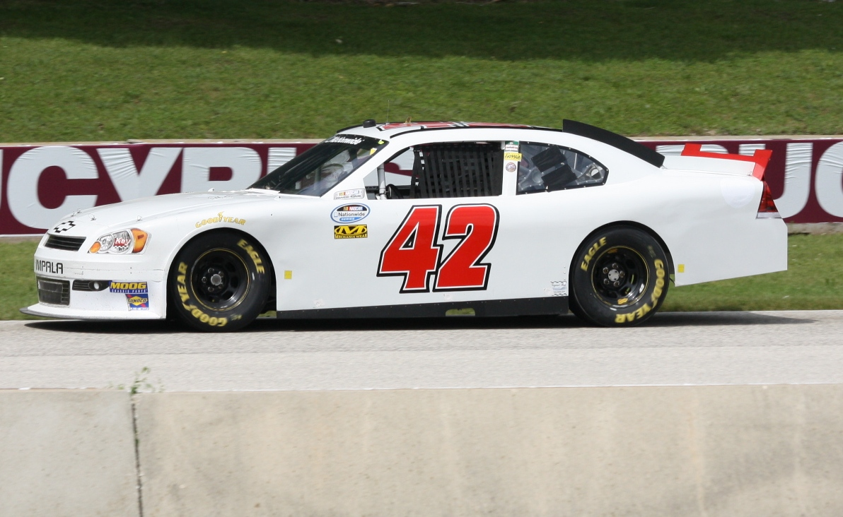 NASCAR driver Tim Andrews racing his stock car at Road America at the 2011 Bucyros 200 Nationwide Series race.